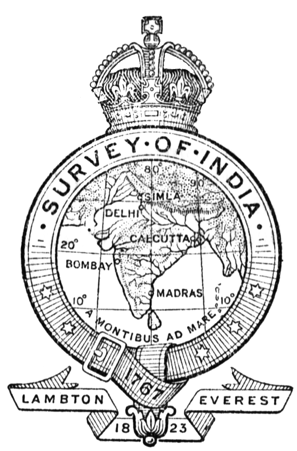 Logo of the Survey of India until c. 1923